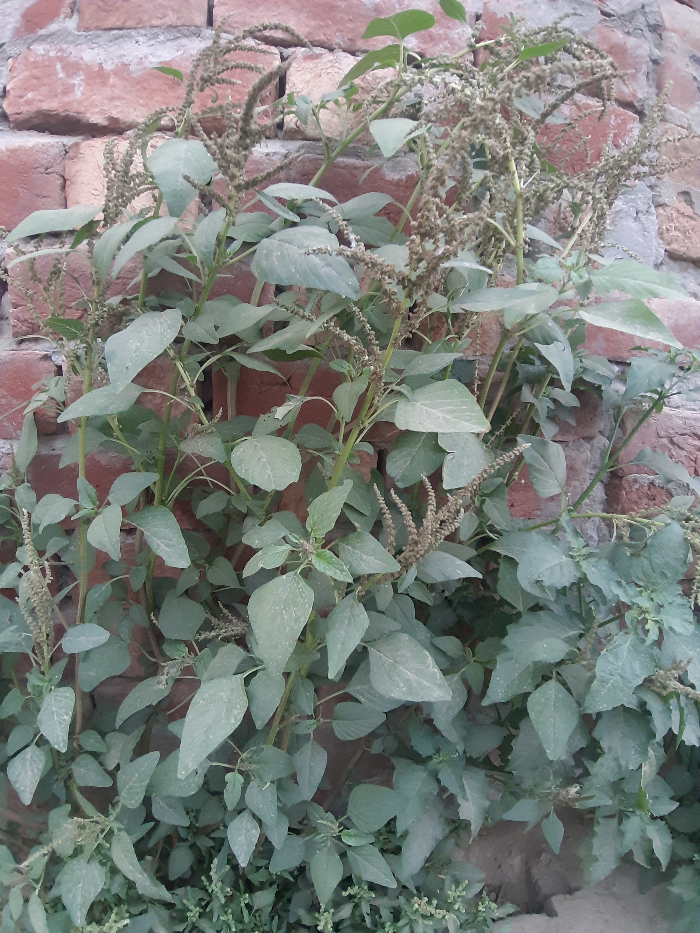 ਸਾਗ ਬਣਾਉਣ ਲਈ ਆਮ ਹੀ ਚਲਾਈ ਦੀ ਵਰਤੋਂ ਕੀਤੀ ਜਾਂਦੀ ਹੈ।